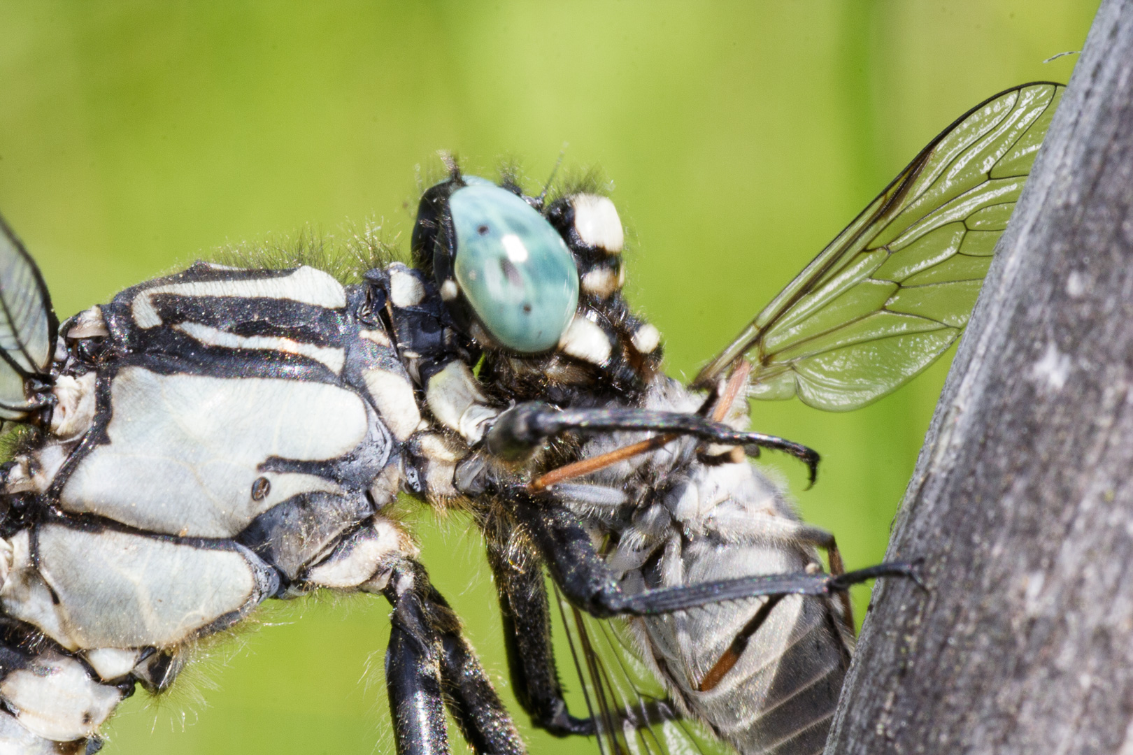 The common club-tail Gomphus vulgatissimus with a prey. Rospuda River Valley.